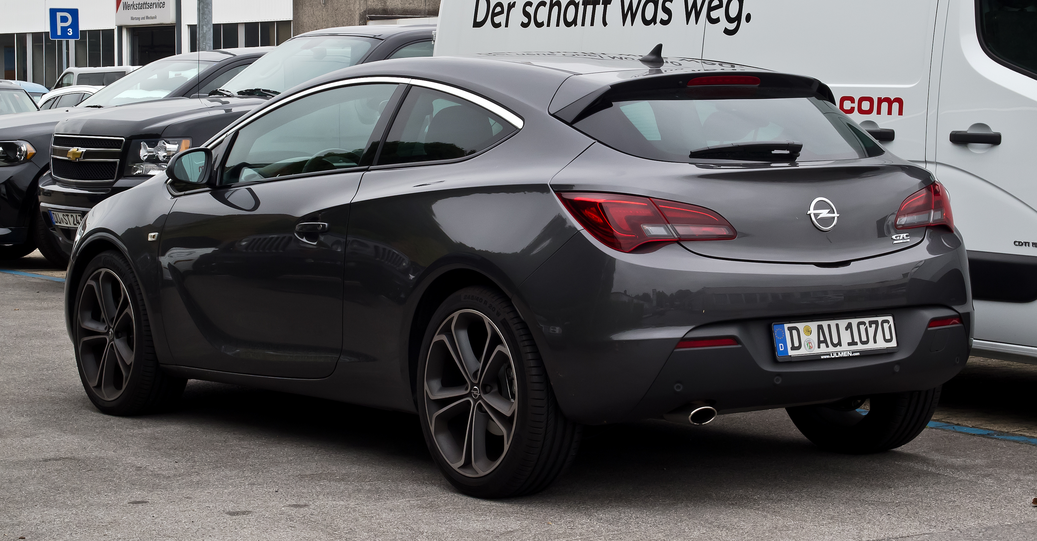 Opel Astra GTC 1.6 Turbo Innovation (J)